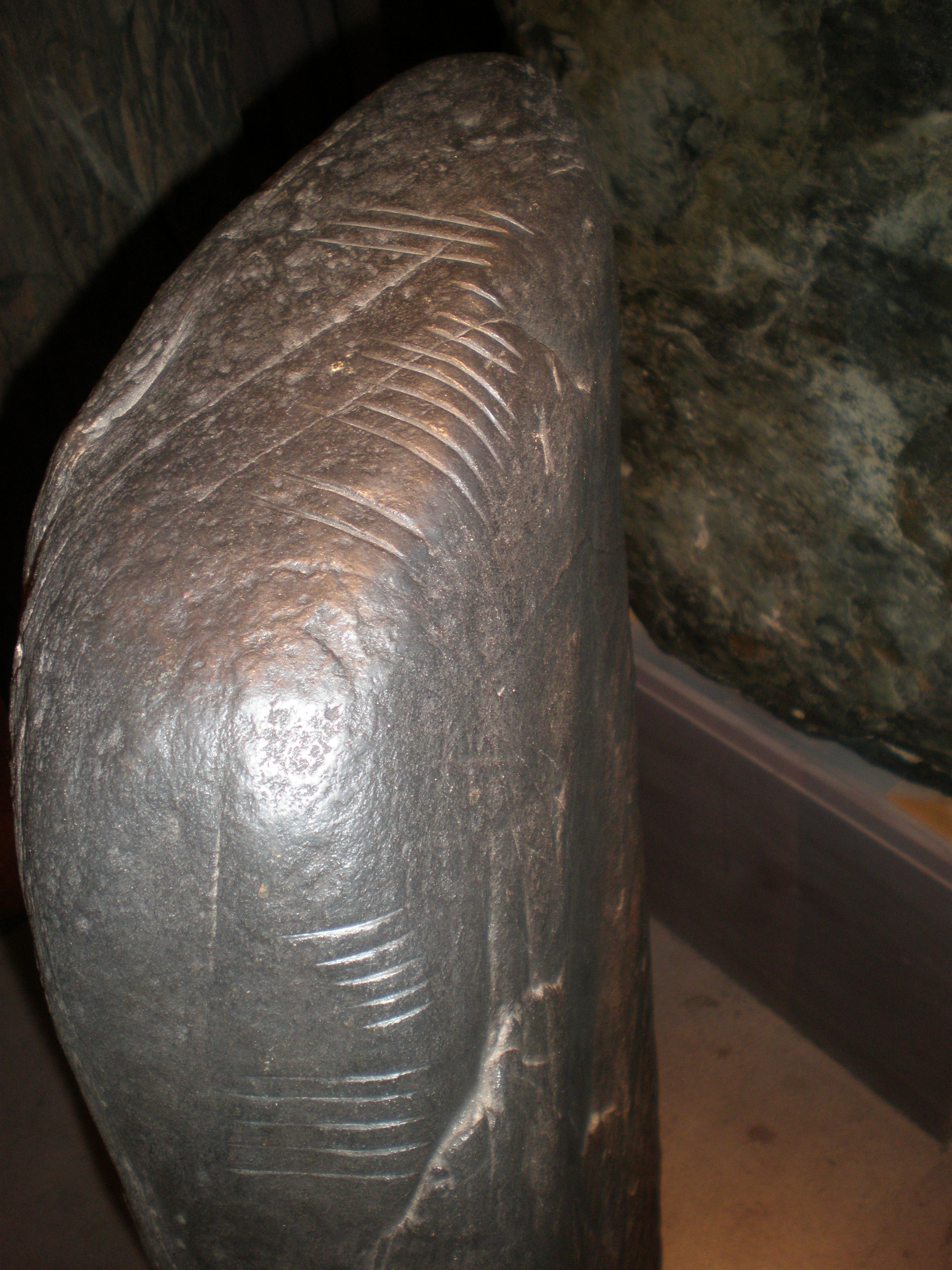 The Ballaqueenee Stone I in the Manx Museum, Isle of Man. It reads ...ᚊᚔ ᚇᚏᚑᚐᚈᚐ᚜ (...QI DROATA), a section from ᚛ᚇᚑᚍᚐᚔᚇᚑᚅᚐ ᚋᚐᚊᚔ ᚇᚏᚑᚐᚈᚐ᚜ (DOFAIDONA MAQI DROATA)